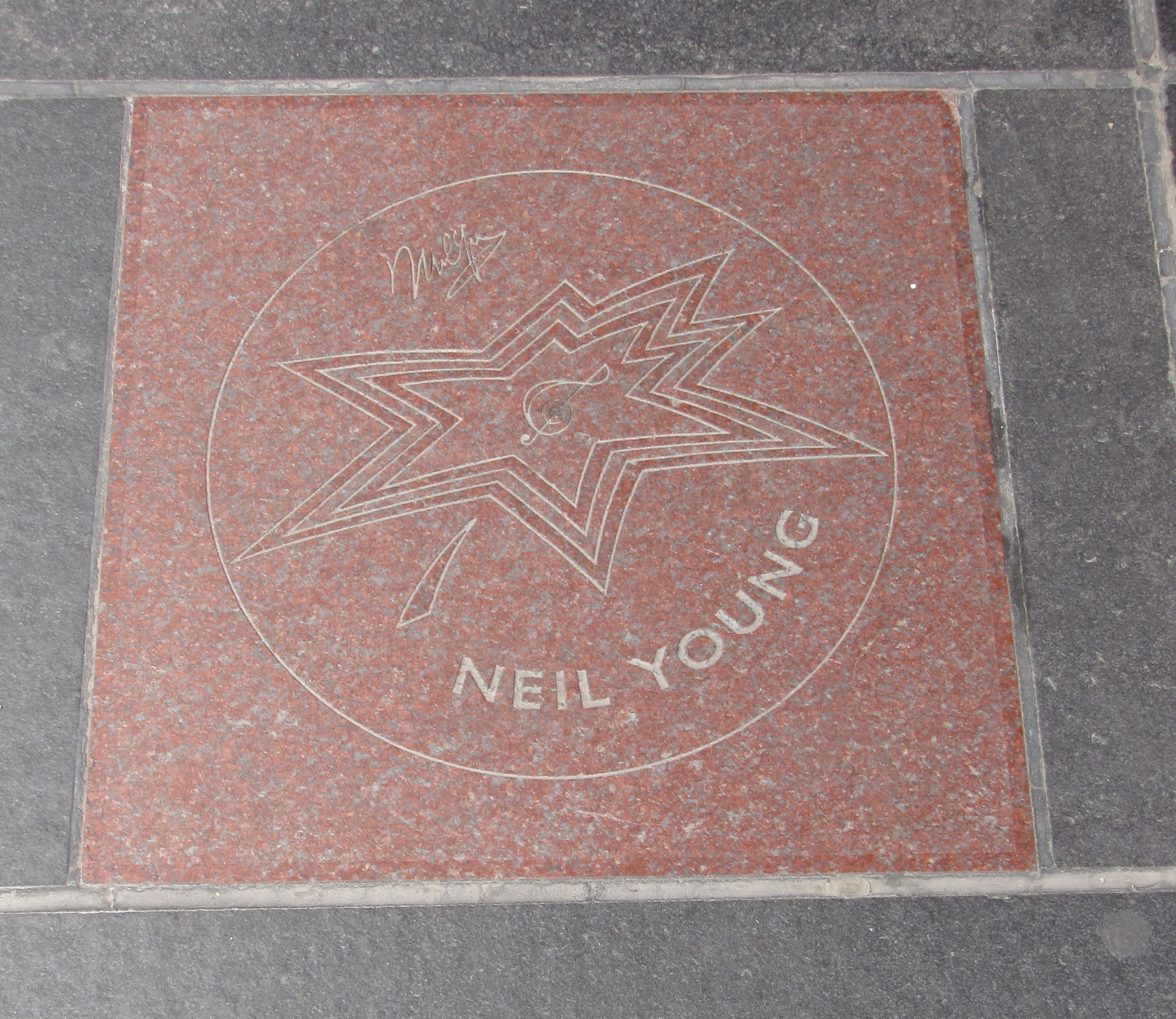 Neil Young's star on Canada's Walk of Fame